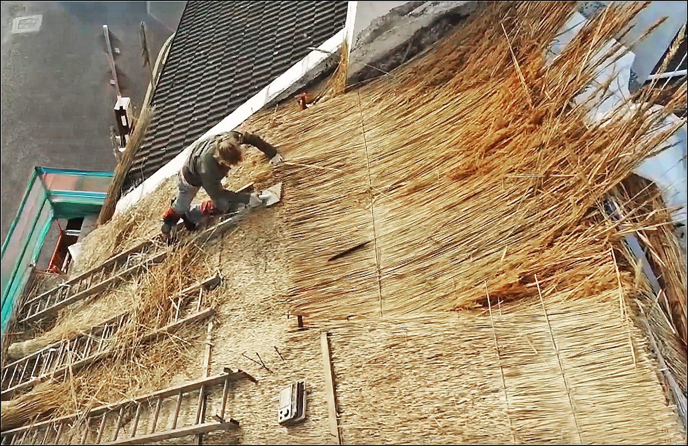 Thatcher woman at work on his roof.